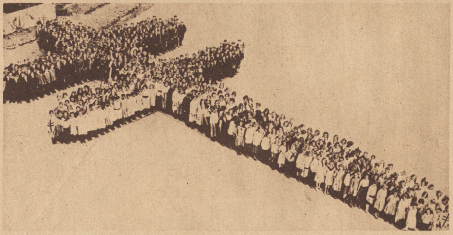 Caption: Several hundred modern young crusaders—Philadelphia school children—form a living tuberculosis double cross, the insignia of the world-wide campaign to fight the white plague. The benefits of fresh air, sanitary living, wholesome food and plenty of sleep is the message they preach